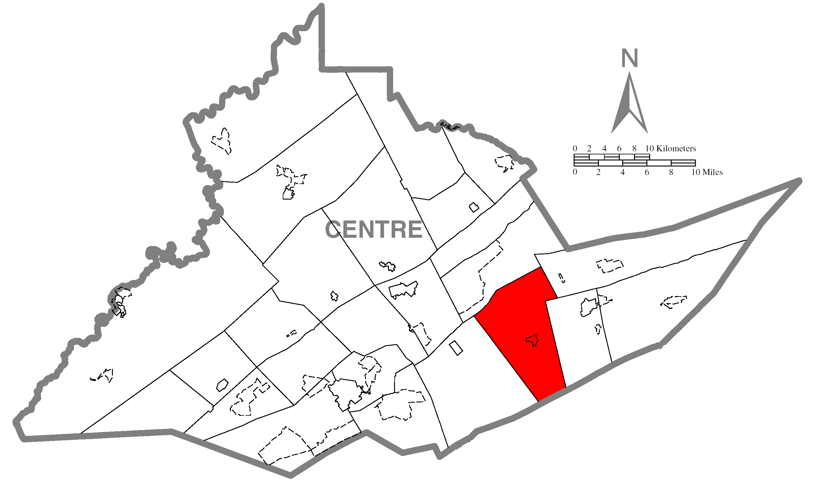 A map of Centre County showing Gregg Township, Pennsylvania (alternate) highlighted on the map.